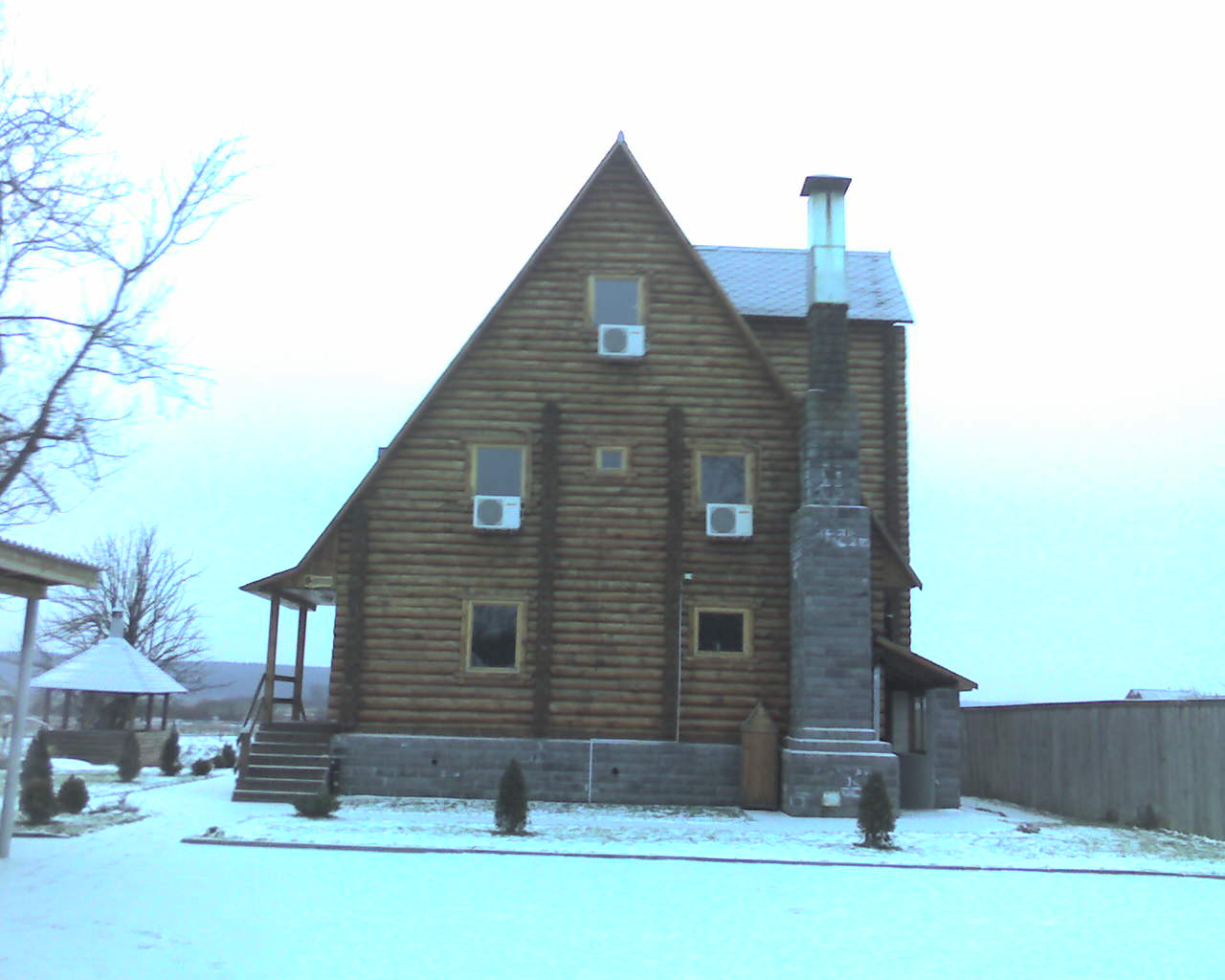 House in Kolentsivske, Kyiv Oblast, Ukraine